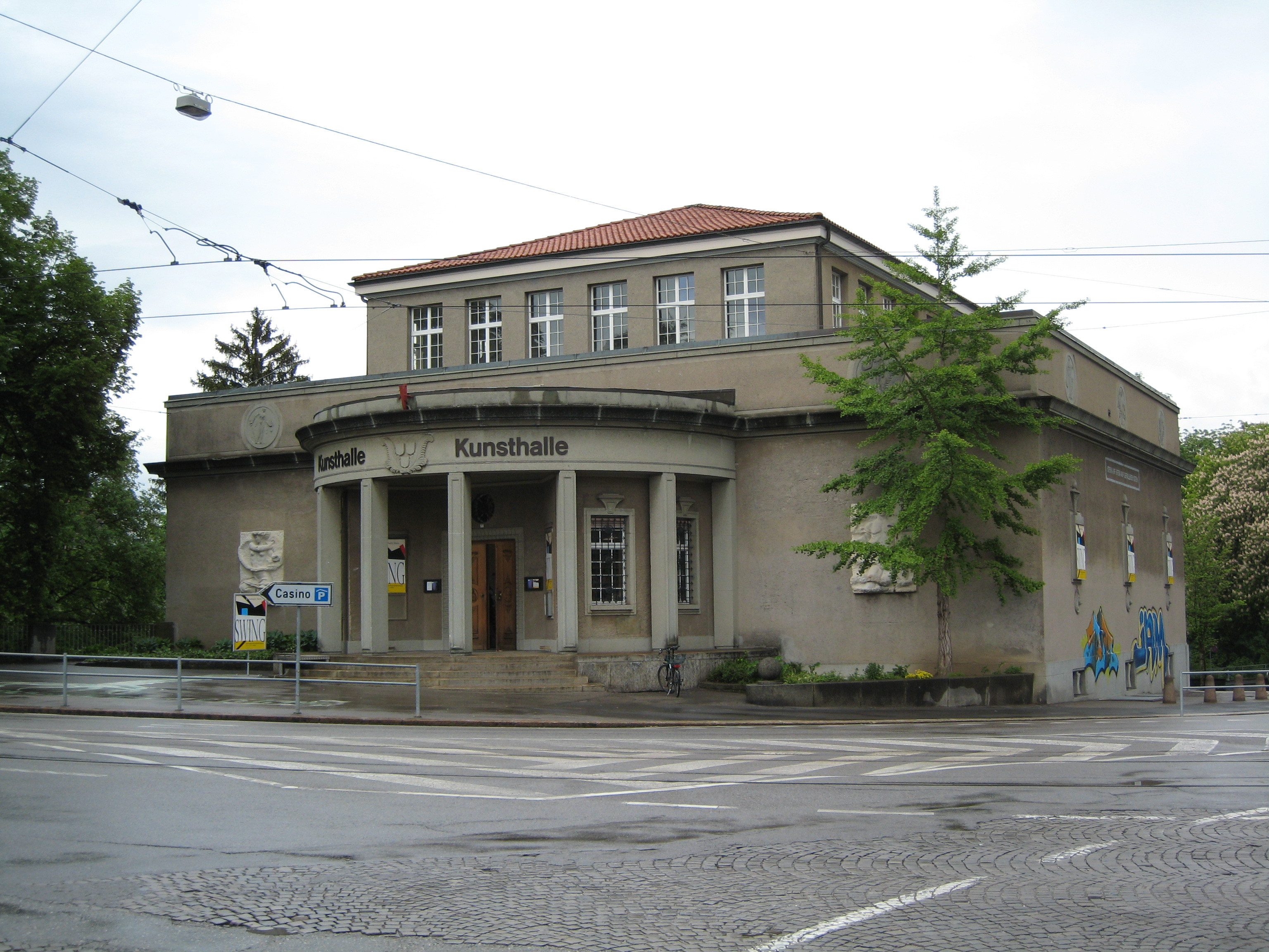 Hall of Art, Berne, Switzerland.